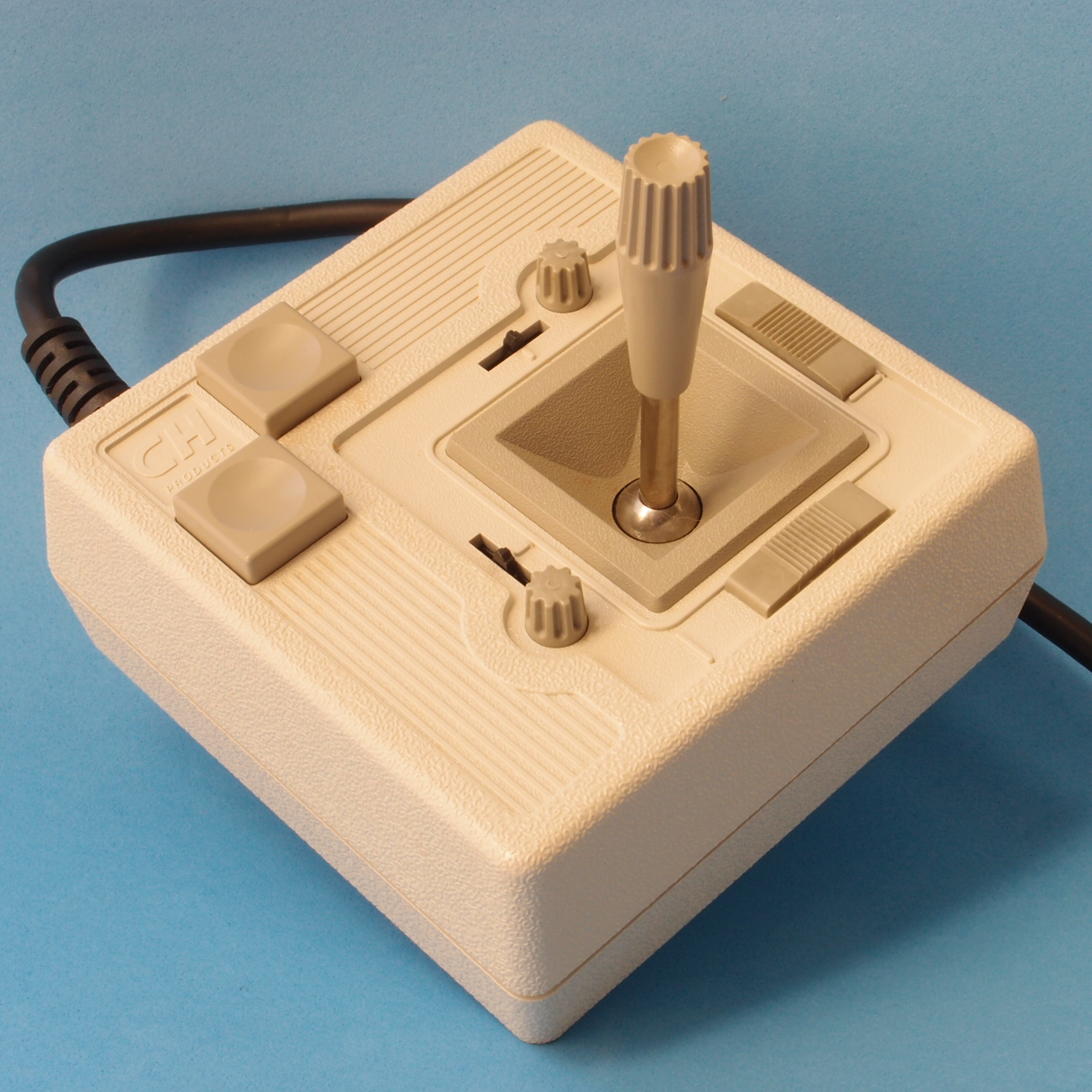 CH Products Mach II analog joystick, from late 1980s. (I think this is a Mach II, but it isn't actually marked. It's not a Mach I or a Mach III, so by deduction...)